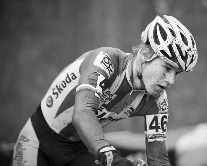 Czech cyclo-cross rider Jiří Polnický in the U23 race at the last event of 2009/2010 World Cup in cyclo-cross, the Grote Prijs Adrie van der Poel in Hoogerheide, the Netherlands.